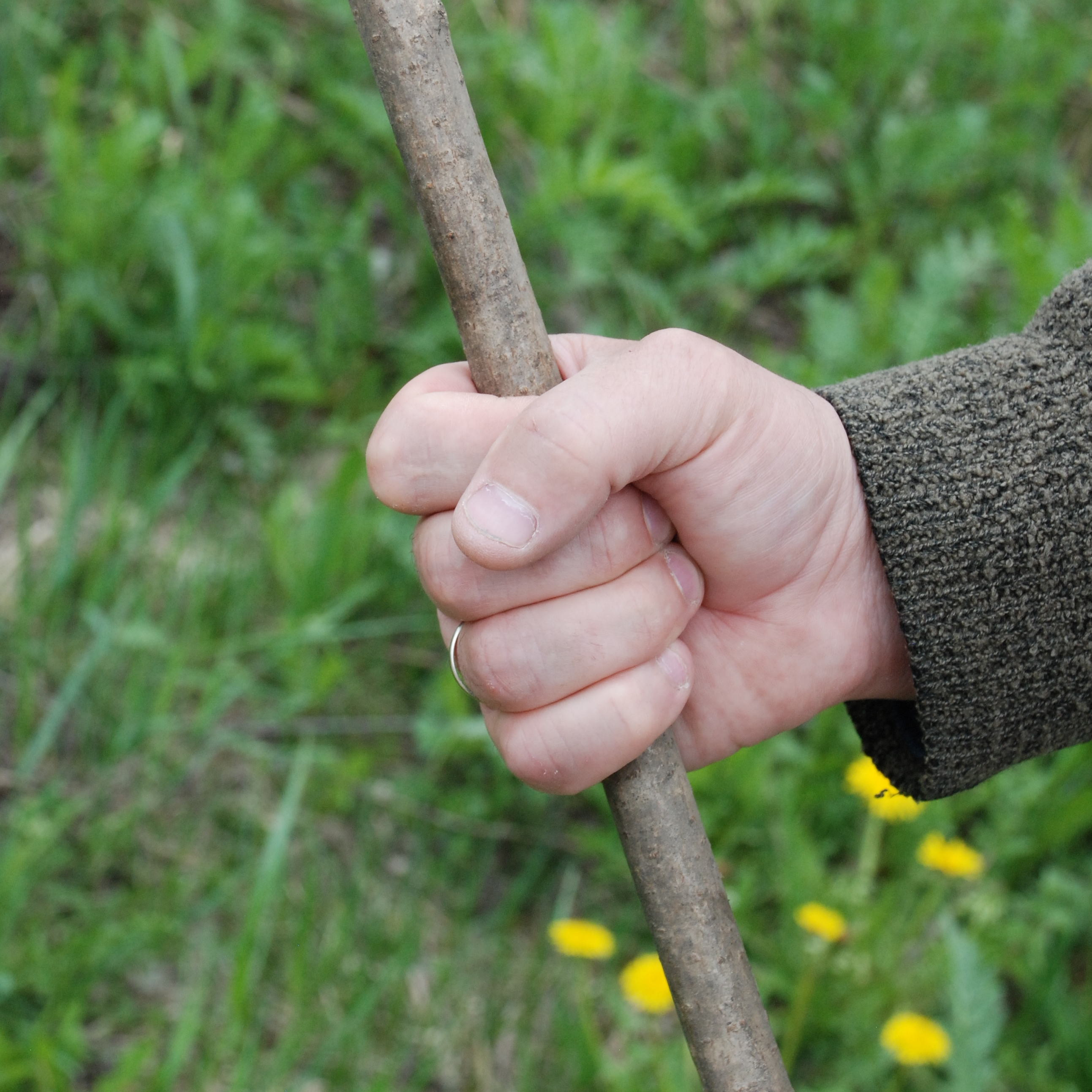 Плотный захват палки за счет замыкания большим пальцем